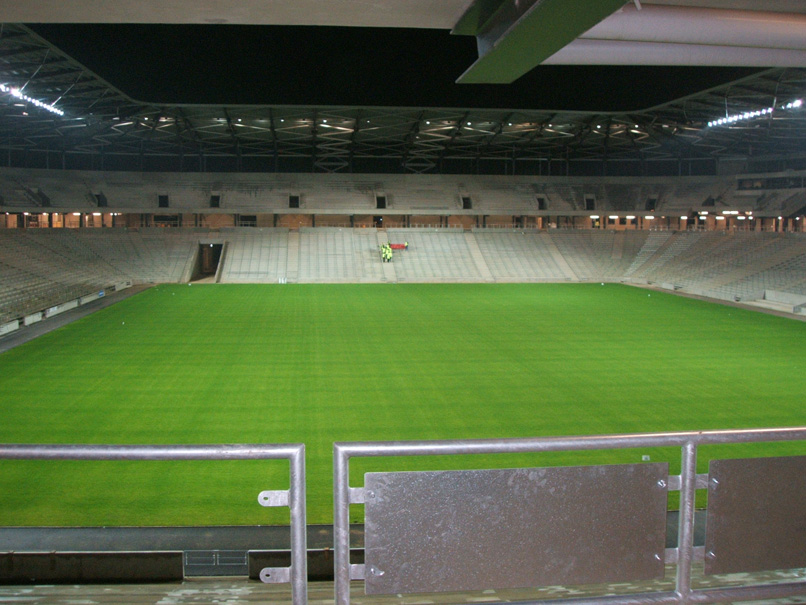 View of Denbigh Stadium, looking towards the south stand